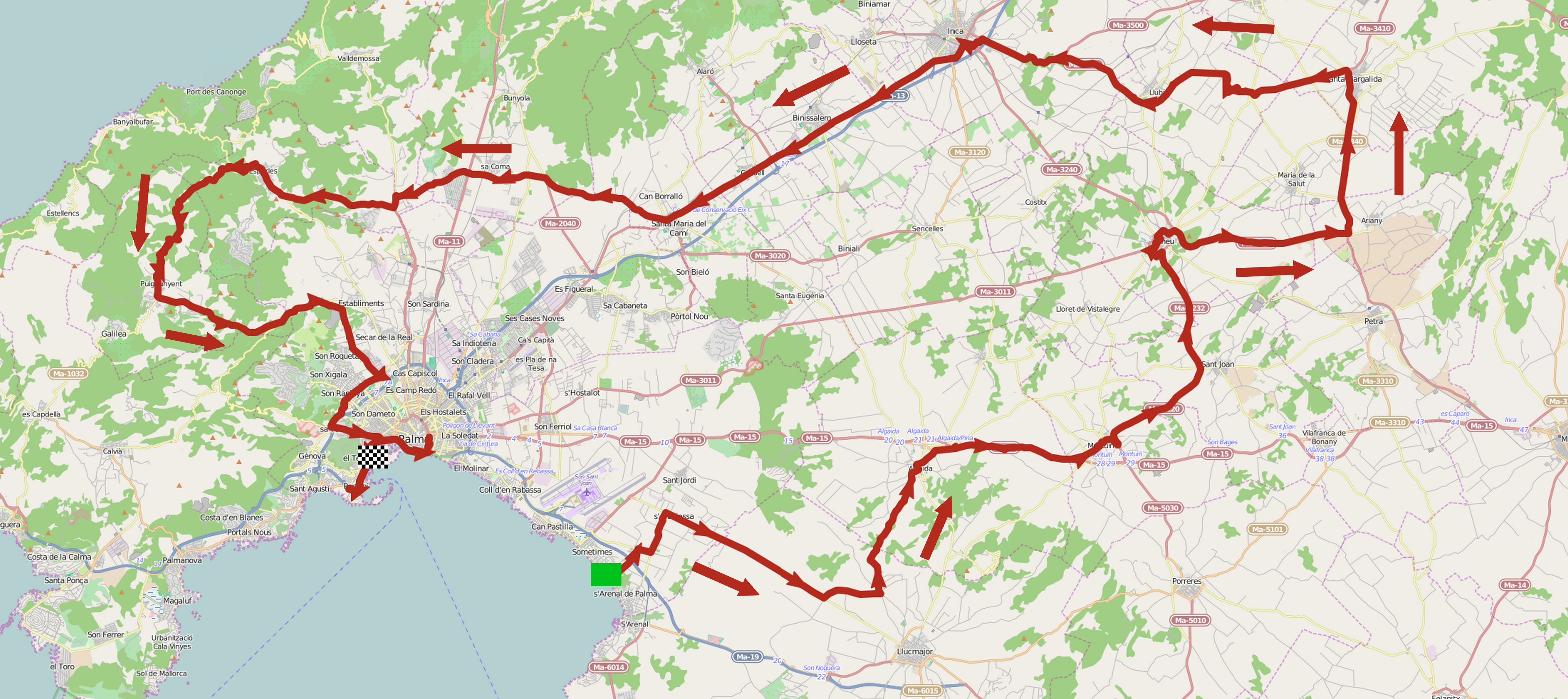 Parcours du Trofeo Playa de Palma du Challenge de Majorque 2015. This map may be incomplete, and may contain errors. Don't rely solely on it for navigation.